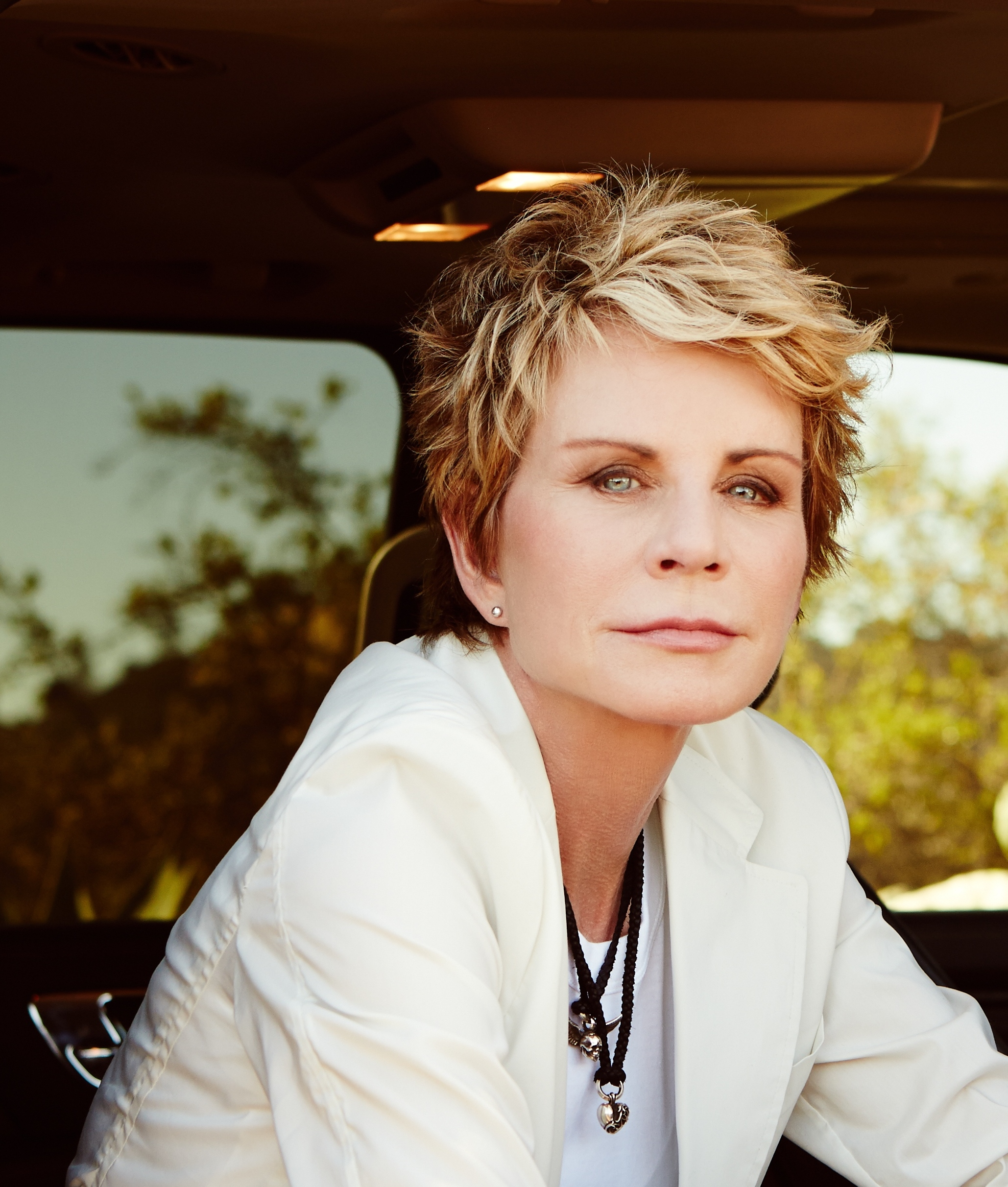 A photograph of Patricia Cornwell.